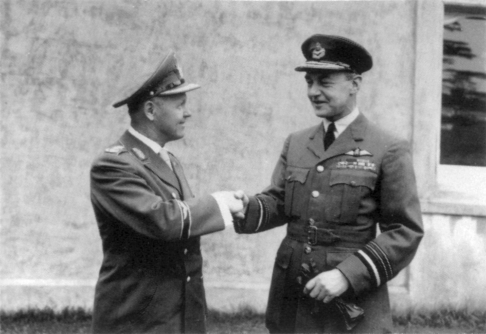 Photograph of Luftwaffe General Josef Kammhuber and Royal Air Force Air Marshal Sir Thomas Pike. The caption from the source (see below) states that the photograph was taken in October 1956.